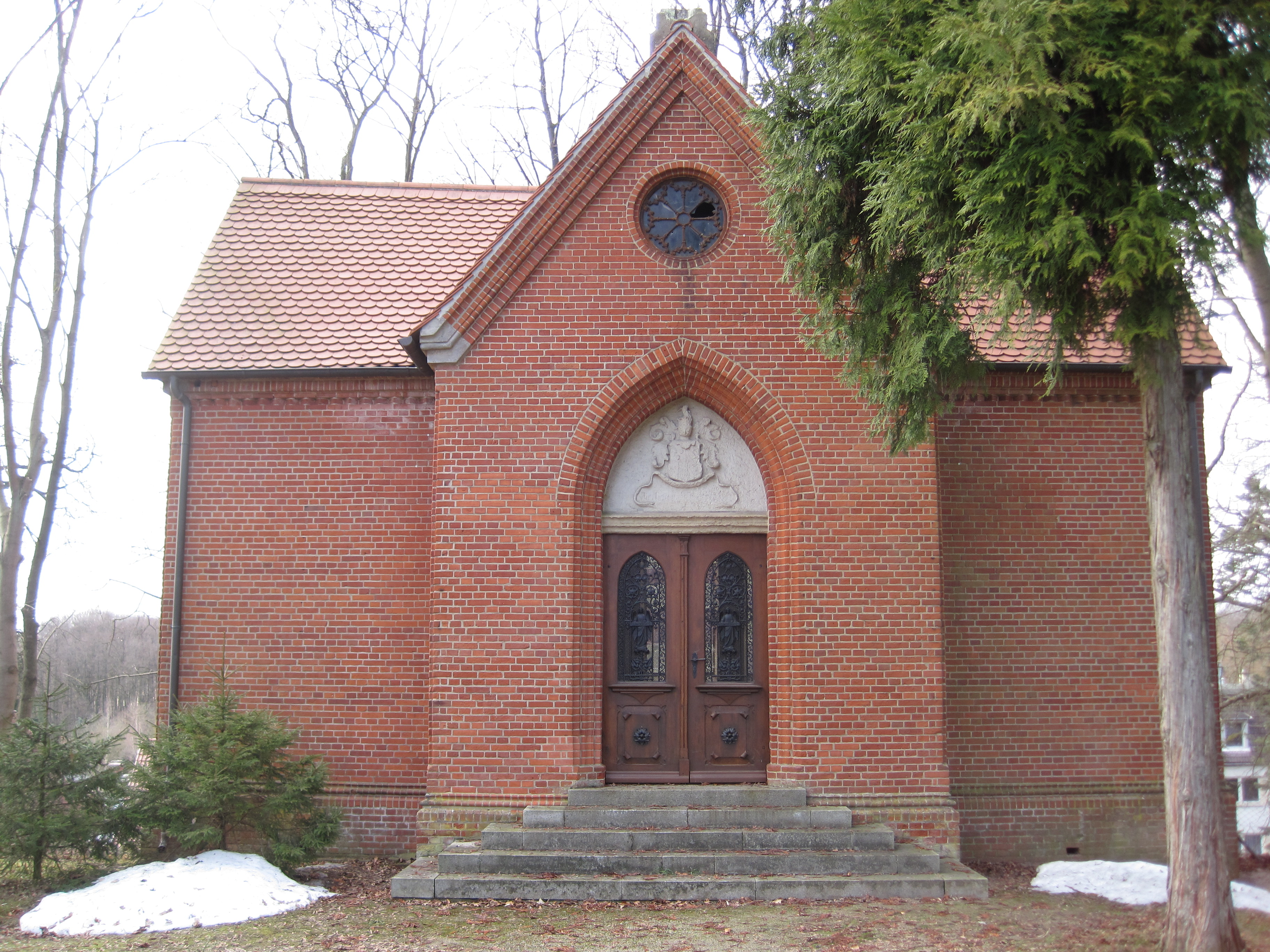 Ostfassade des Mausoleums von 1884 in Gresse gegenüber dem Kirchturm der Dorfkirche.